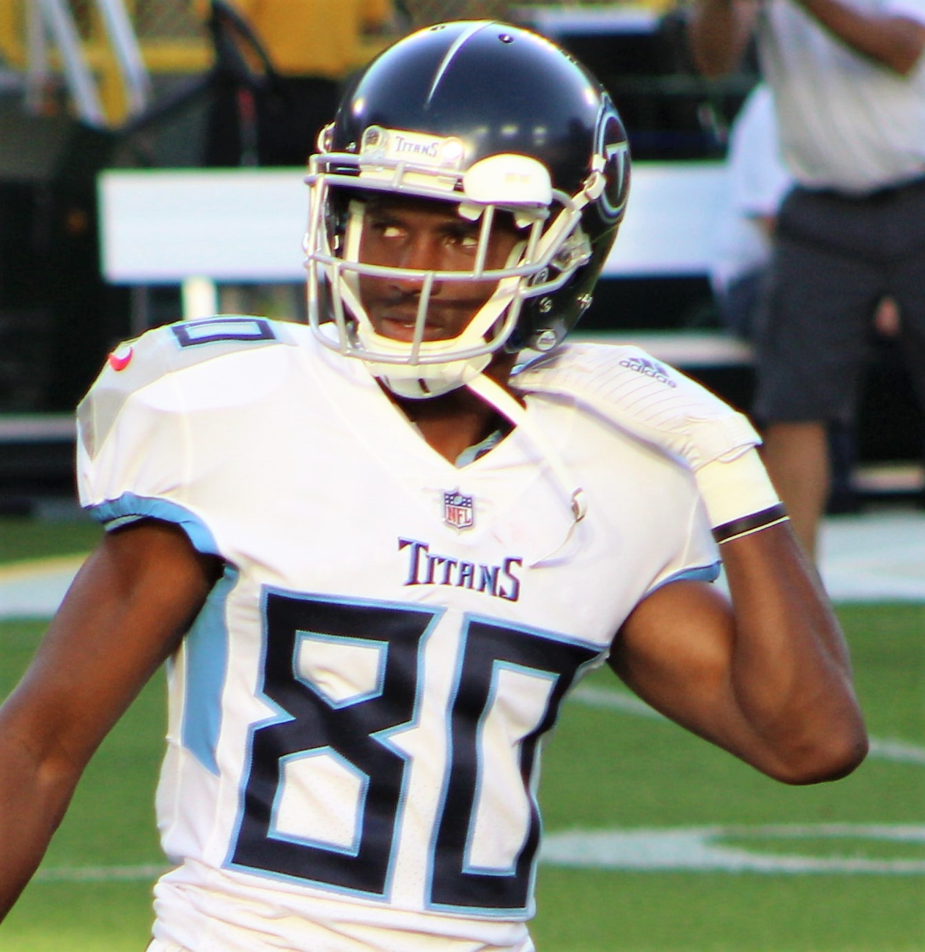 Deontay Burnett, Tennessee Titans at Green Bay Packers (Preseason), August 9, 2018